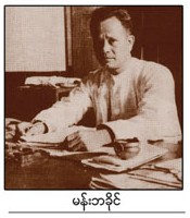 Mahn Ba Khaing (Burmese: မန်းဘခိုင် [máɴ ba̰ kʰàɪɴ]; 26 October 1903 – 19 July 1947) was a Burmese politician who served as the Minister of Industry in Myanmar's pre-independence government.